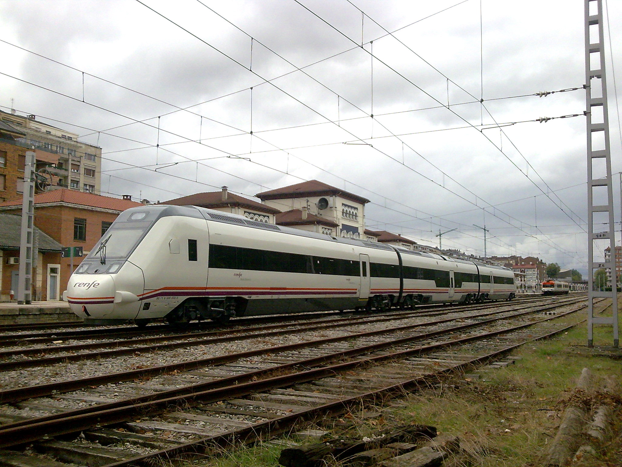 First Unit of Renfe 599 Class